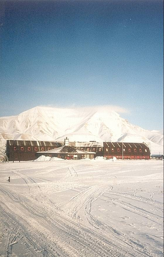 The University Centre of Svalbard (UNIS) building (dated 2002). Situated next to the fjord, Adventfjorden, UNIS is next to the commercial district of Longyearbyen, Svalbard's capital town. Over 200 students a year attend the UNIS courses that include geographical, biological, physical and technological science courses.